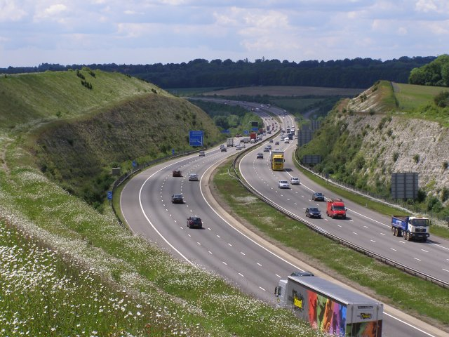 M3 motorway in the Twyford Down cutting The motorway climbs steeply from the Itchen Valley towards the photographer through the Twyford Down cutting. The lorry in the foreground is on the southbound carriageway, between junctions 10 and 11, headed towards Southampton and the M27. The chalk white sides of the cutting are starting to green over with vegetation.